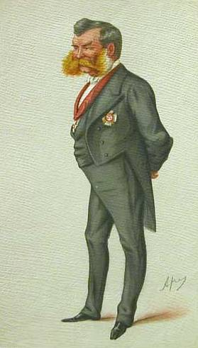 Caricature of Sir John Lintorn Arabin Simmons. Caption read "Fortifications".